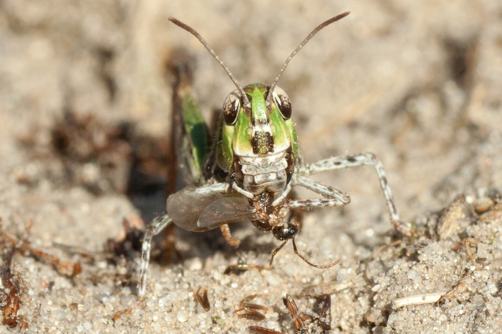 Myrmeleotettix maculatus female feeding on dead insect (Hymenoptera, in my opinion looking like an ant). Truskaw near Warsaw, Poland. This is a photography of Natura 2000 protected area with ID PLC140001